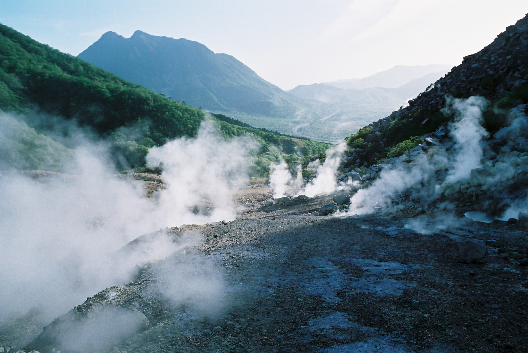 The steaming crater of Mount Garan (now off limits) in Yufu, Ōita, Japan